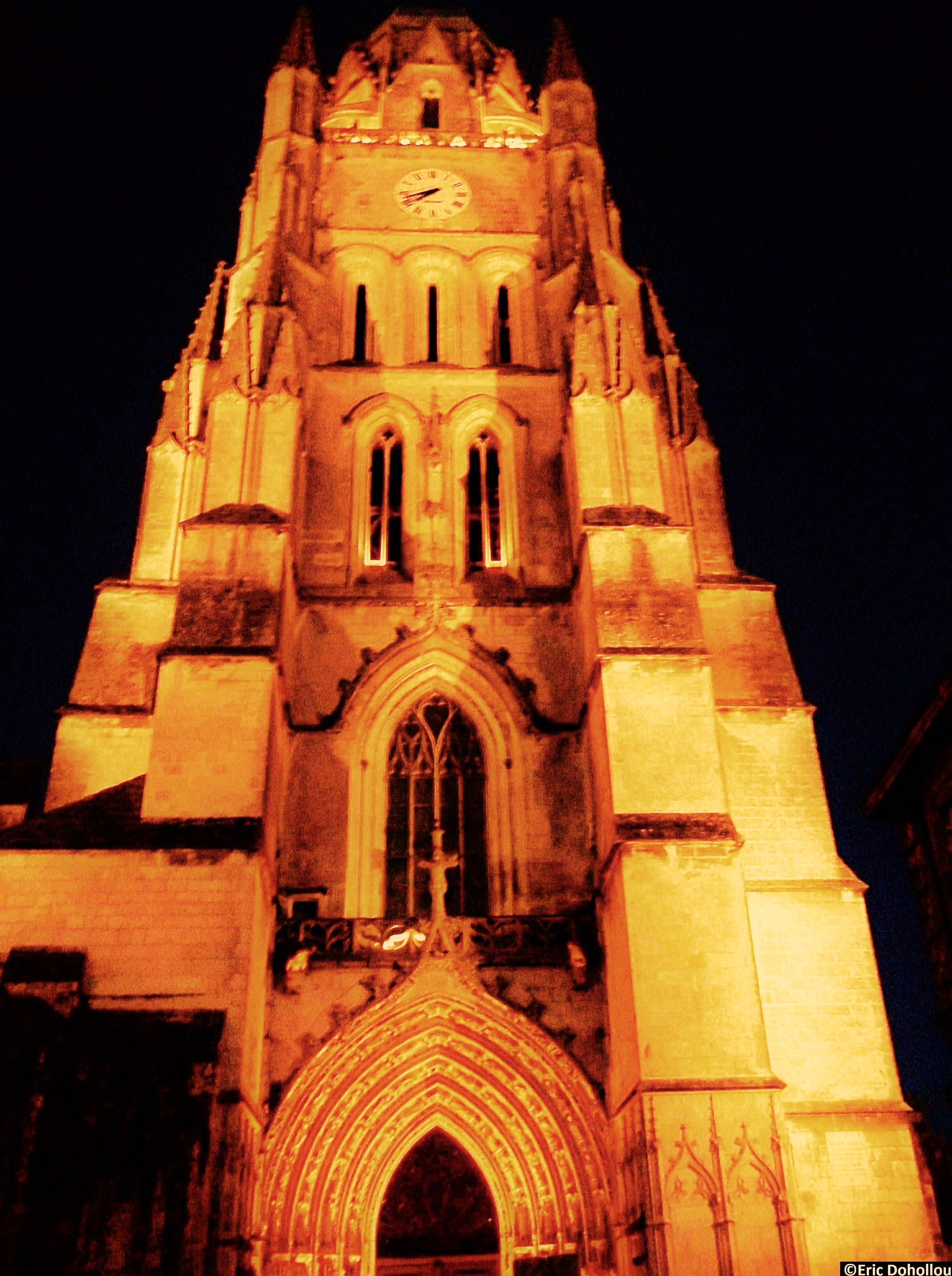 Cathédrale St Pierre la nuit